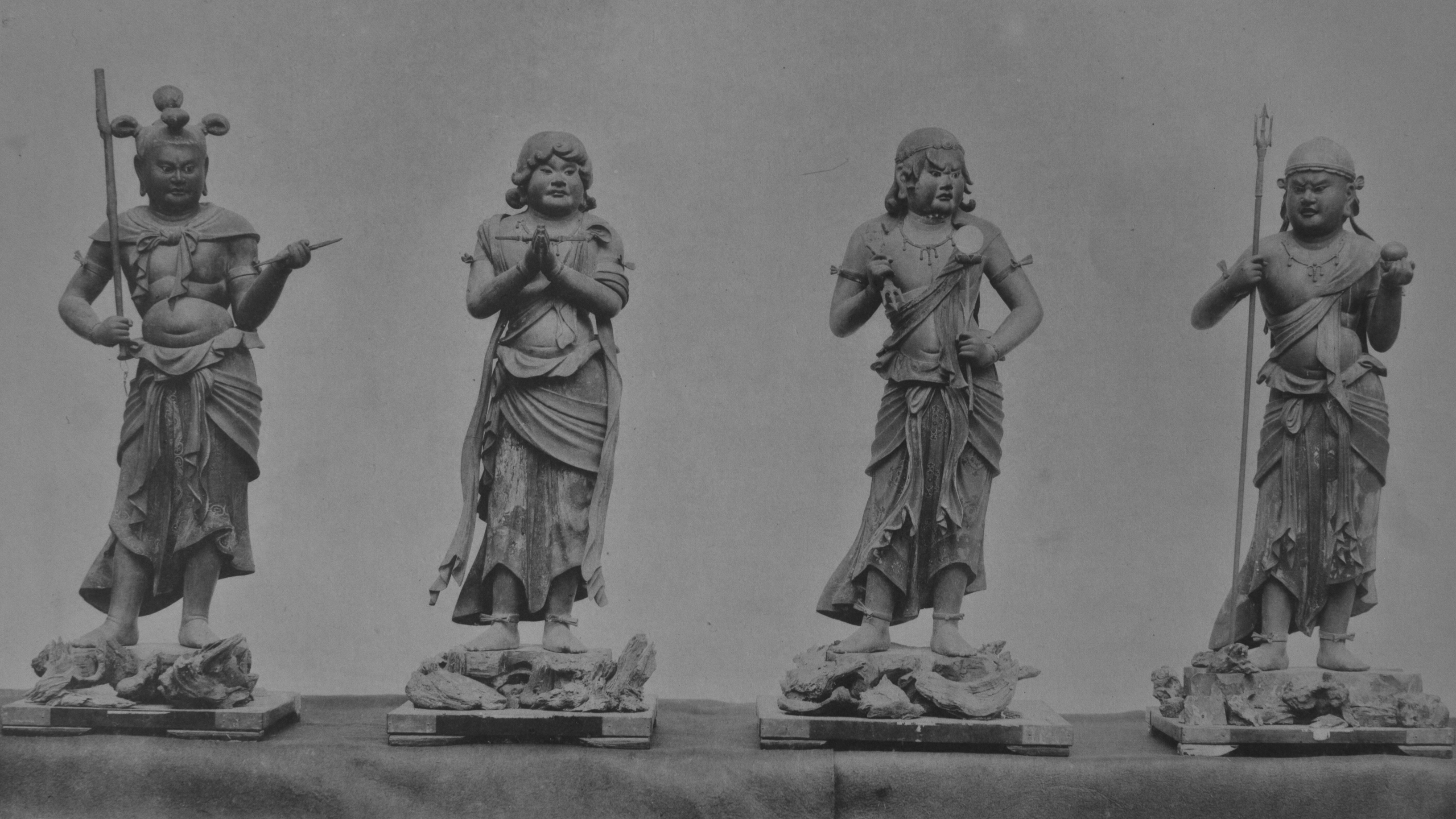 Kongobuji, Wakayama, Japan